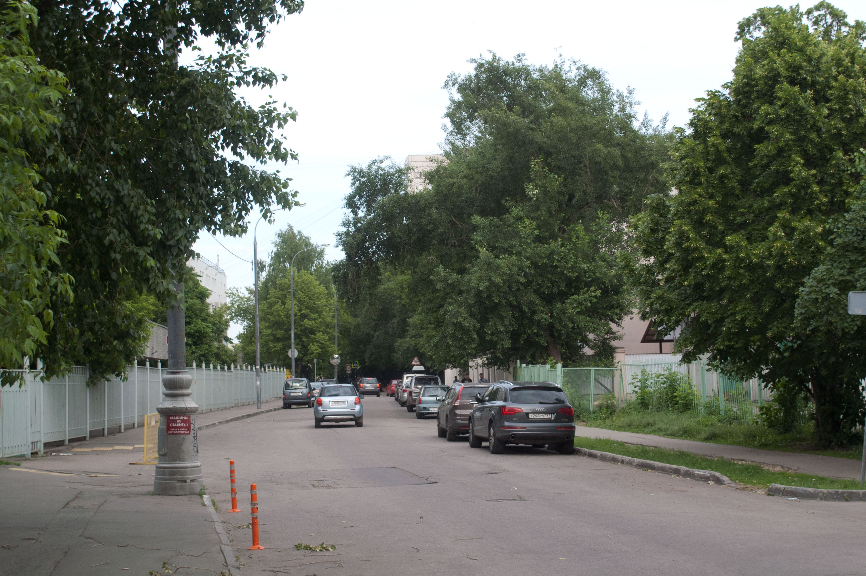 Pistsovaya Ulitsa (street) in Moscow